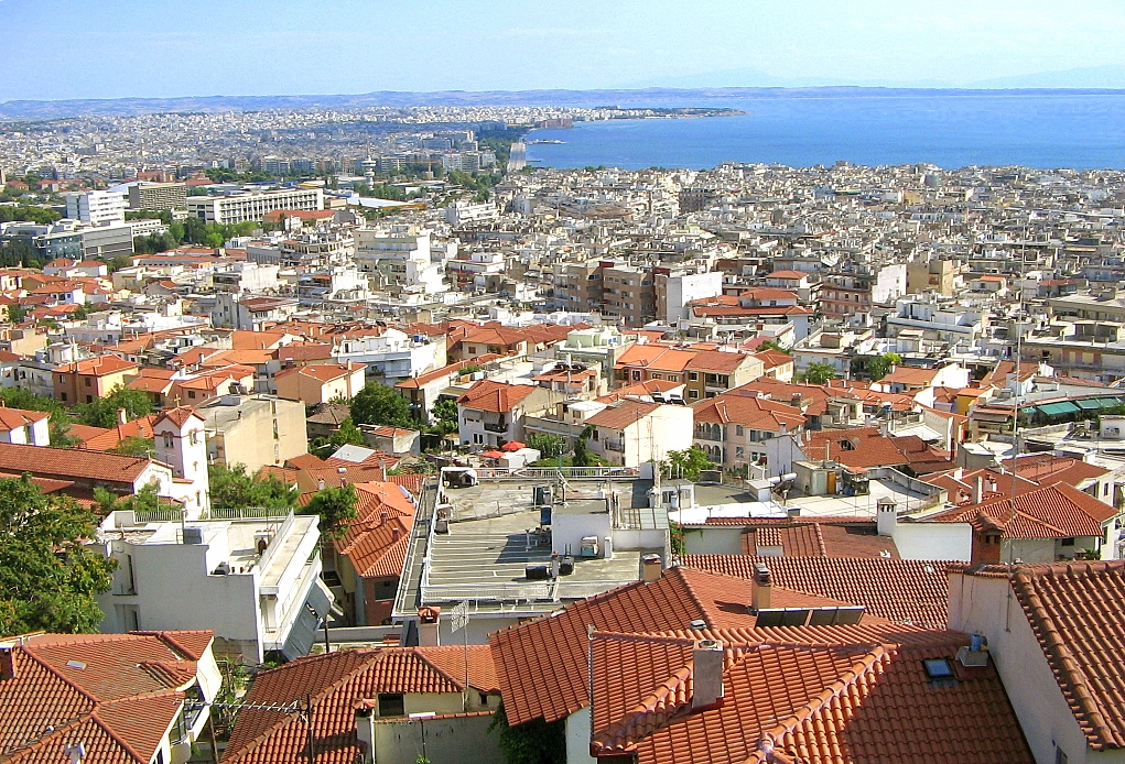 Overlooking the modern part of Thessaloniki and the harbour from the central Ano Poli (Old Town) district.